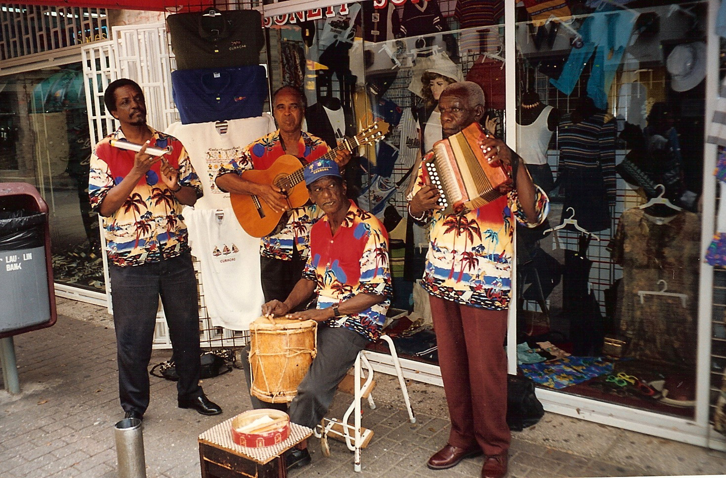 Curaçao, Willemstad, Street musicians